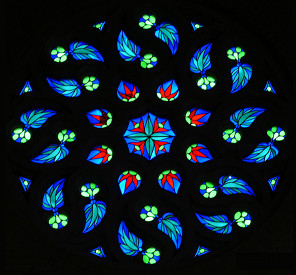 St Andrew's Church, Brighton - Rose window in transept